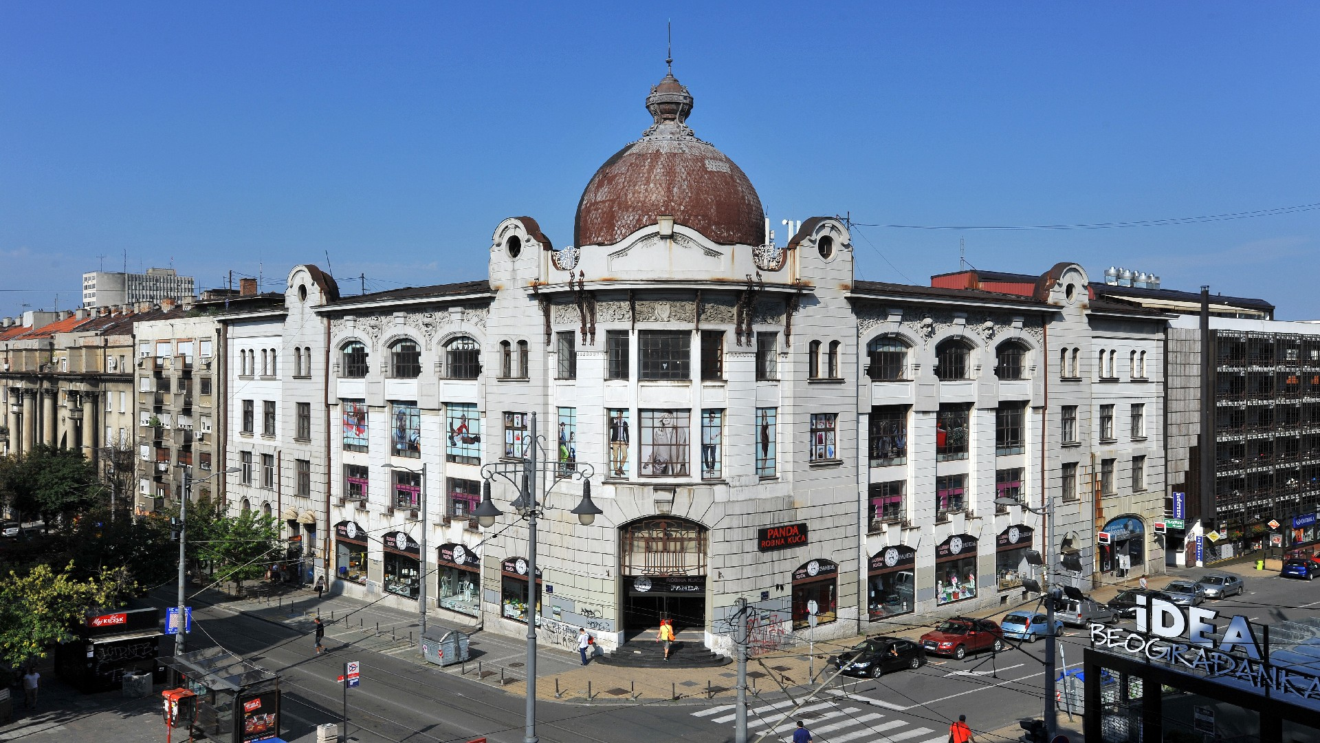 Building of the officer co-operative in Belgrade